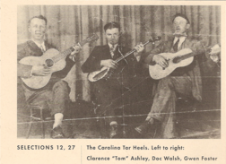 This image shows the Carolina Tar Heels, an old-time group which constited of Doc Walsh (banjo), Clarence Ashley (guitar) and Gwen Foster (harmonica).